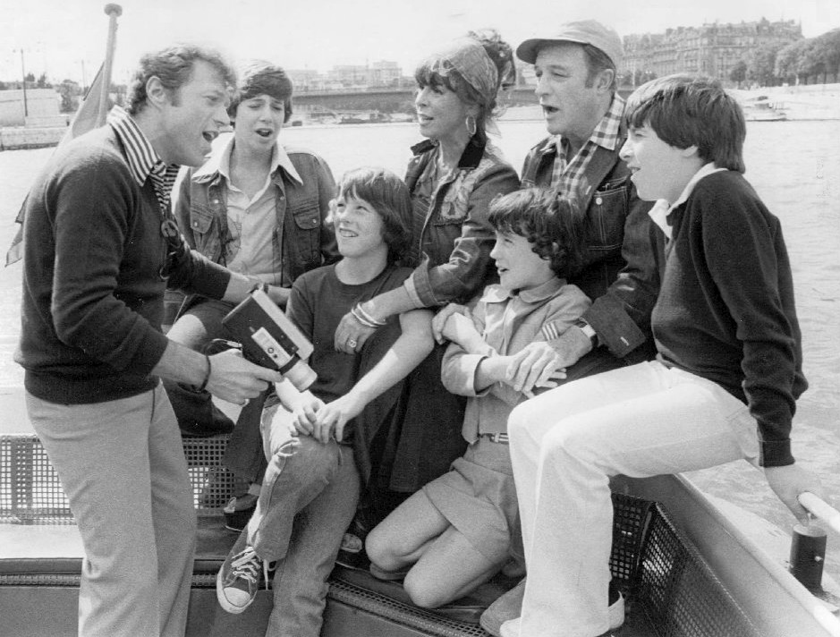 Photo of Steve Lawrence, Eydie Gorme and their two sons with Gene Kelly and his son and daughter from a 1975 television special "Our Love is Here to Stay". From left-Steve Lawrence, David Lawrence, Tim Kelly, Eydie Gorme, Gene Kelly, Bridget Kelly, Mike Lawrence.